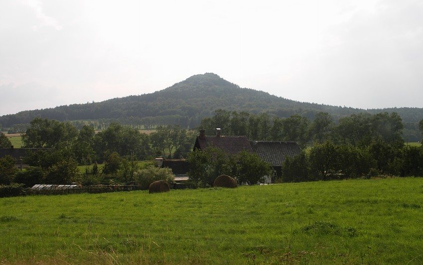 Sokol mountain (Falkenberg), Lusatian Mountains, Czech Republic